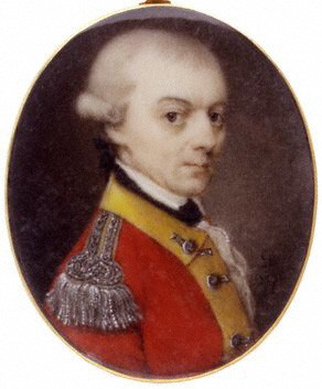 Robert Prescott, governor of British North America